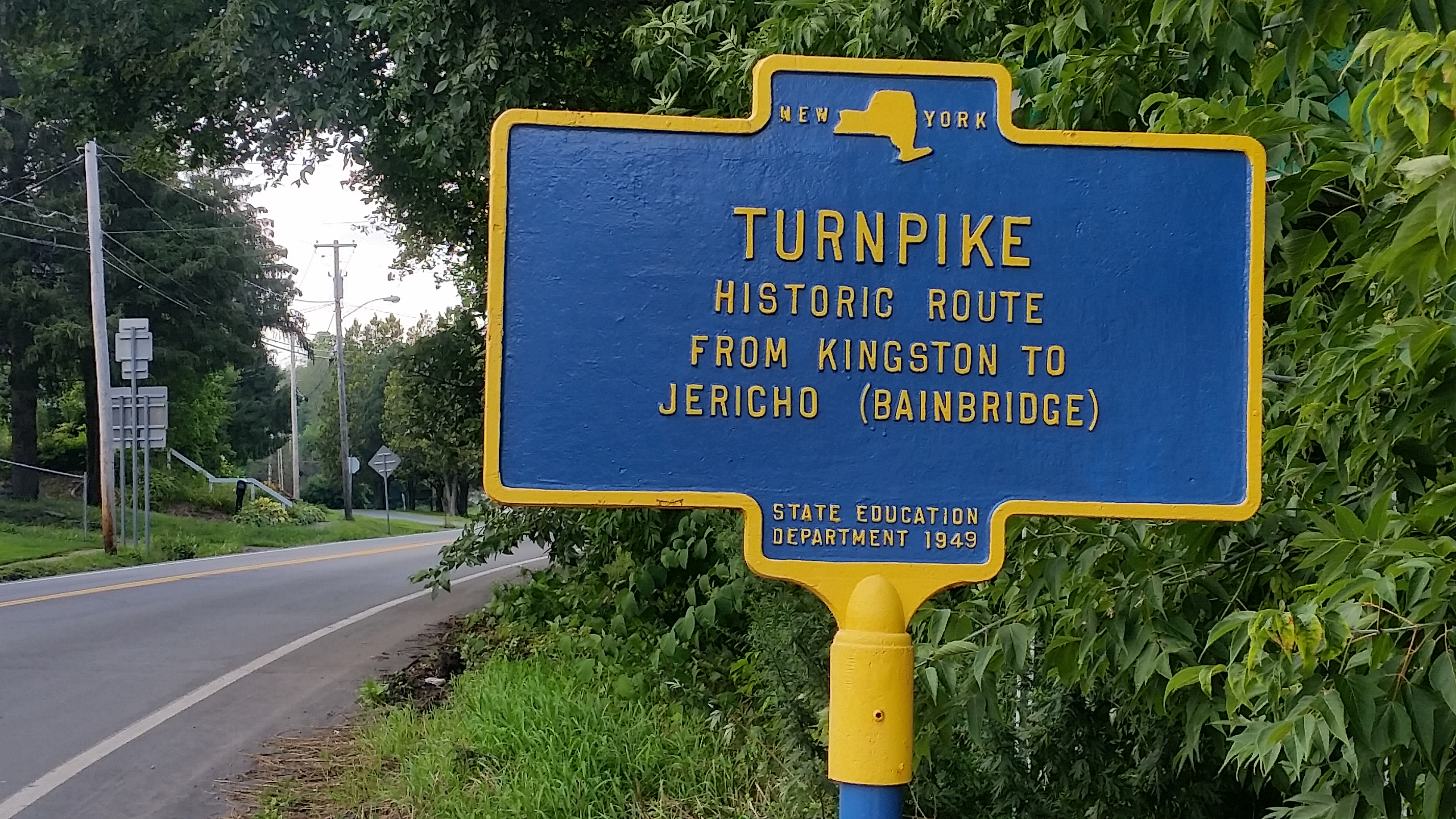 New York State historical marker for an old Ulster and Delaware Turnpike from Jericho (now Bainbridge) to the Connecticut state line at Salisbury[1]. Camera facing northwest.